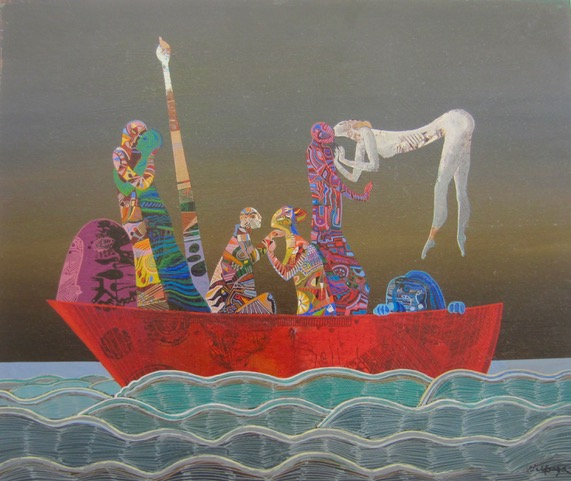 Egg tempera painting by Jesús Vilallonga. Photograph by Katherine Slusher